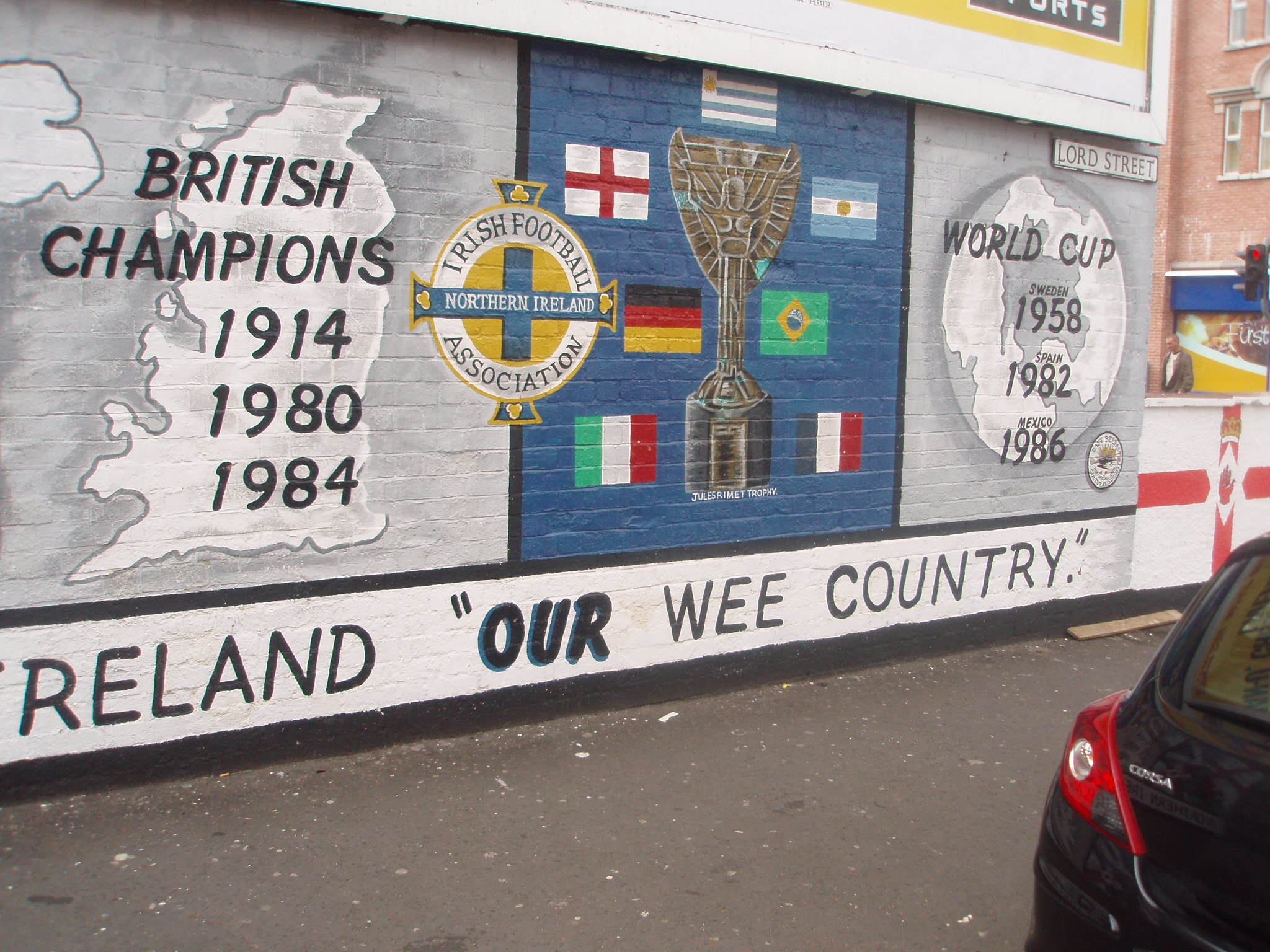 Irish Football Association wall poster